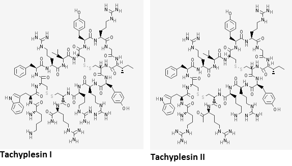 Tachyplesins